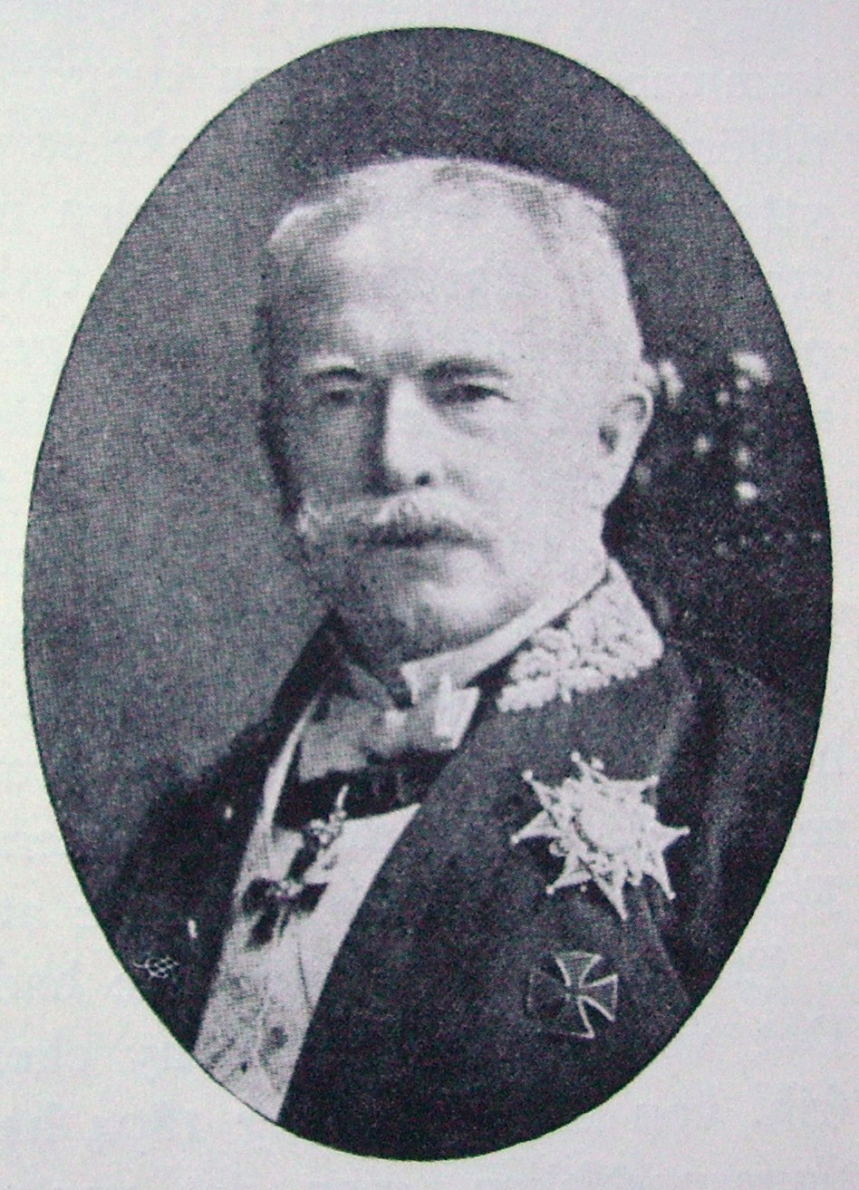 Picture of Ludvig Douglas, Swedish politician